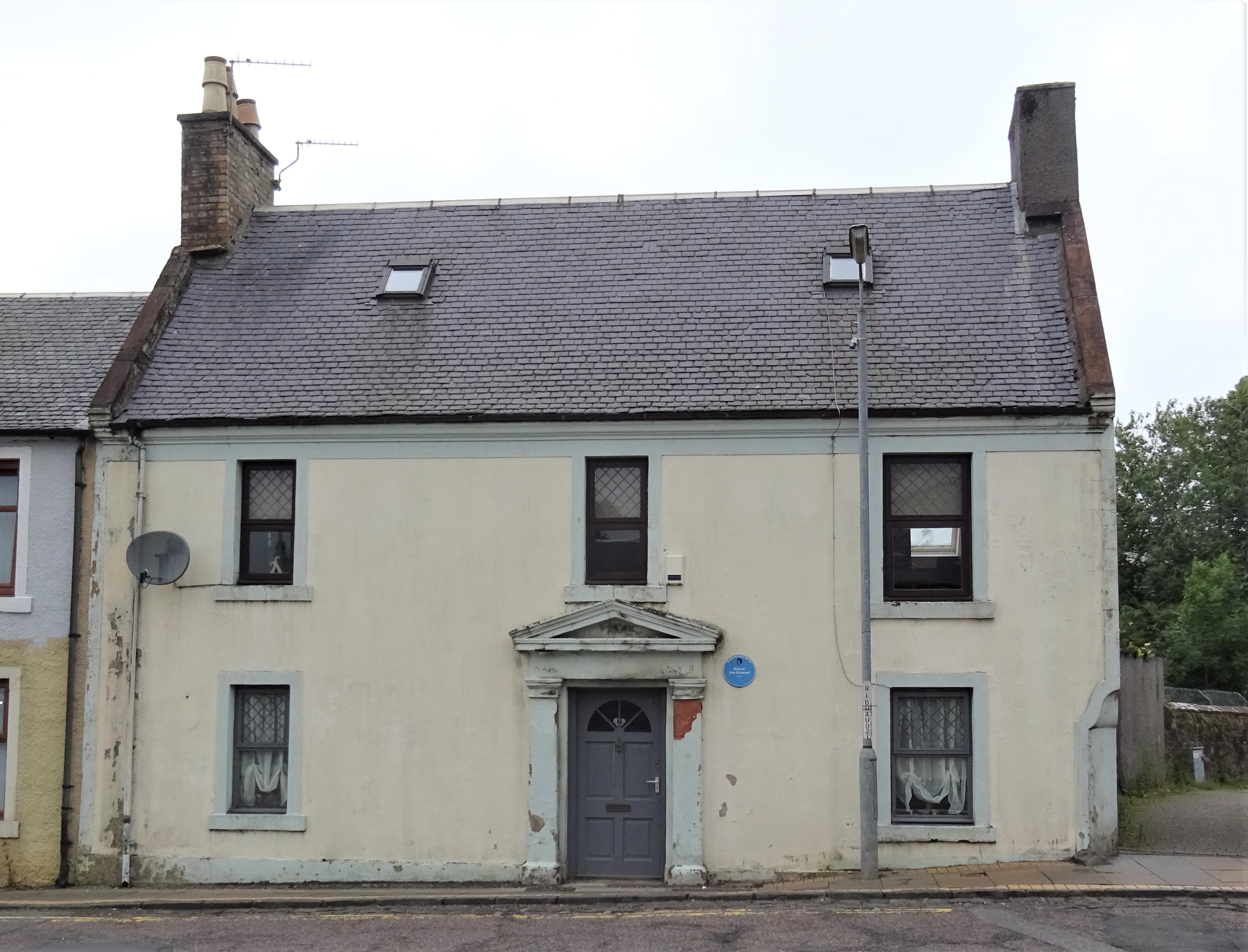 John Richmond's House, 3 Main Street, Mauchline, East Ayrshire. Close friend of Robert Burns and a lawyer.